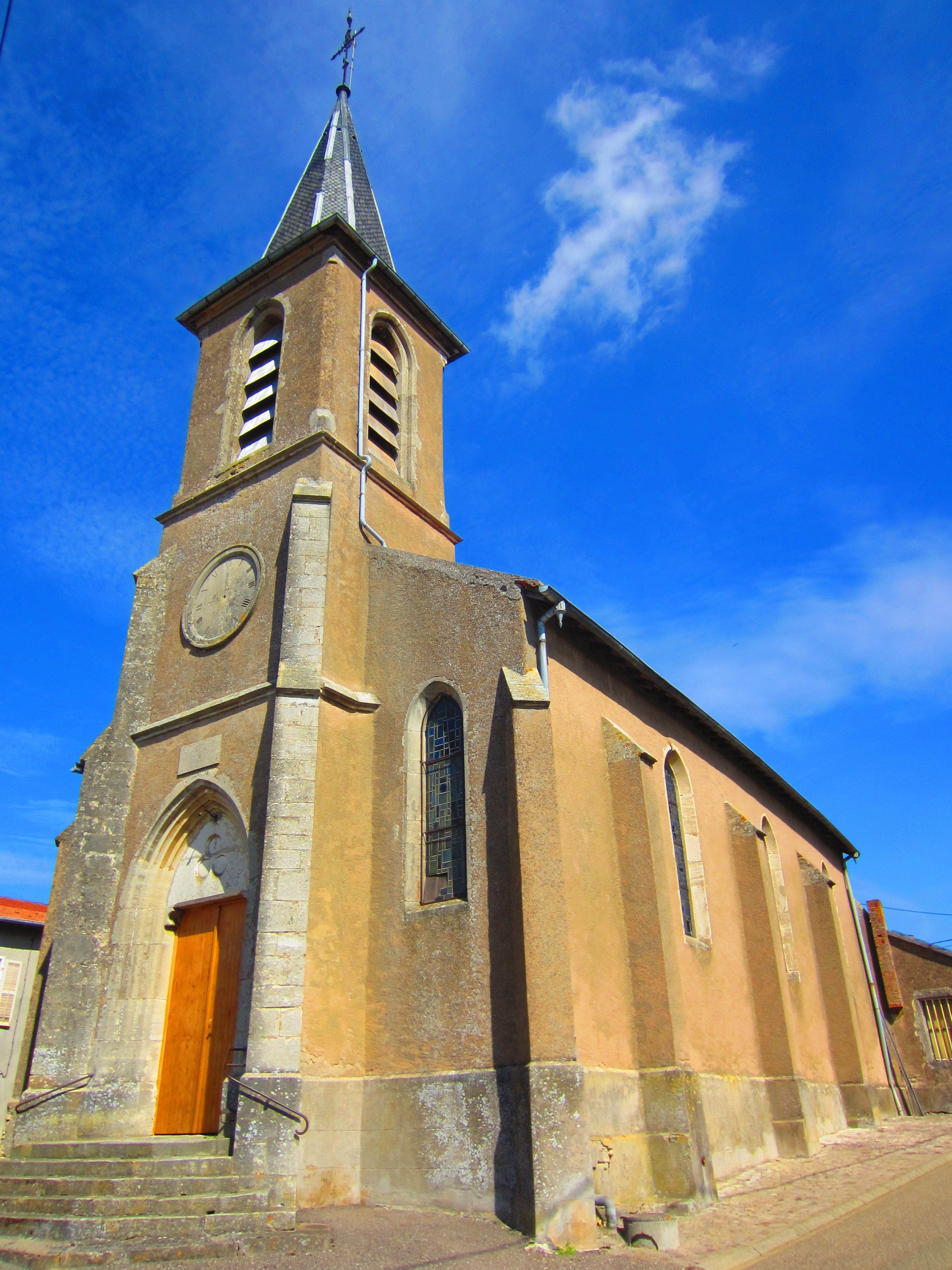 Alaincourt Cote church